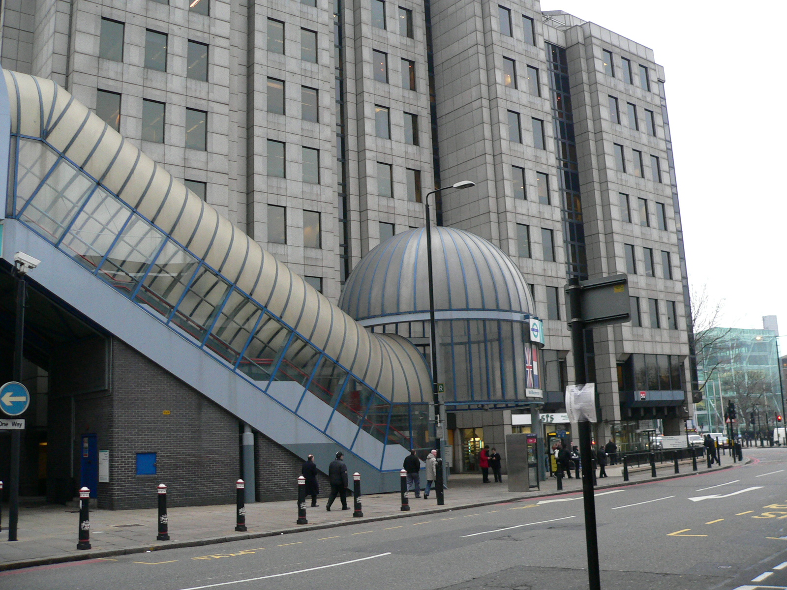 The main entrance to Tower Gateway DLR station, viewed from street level.